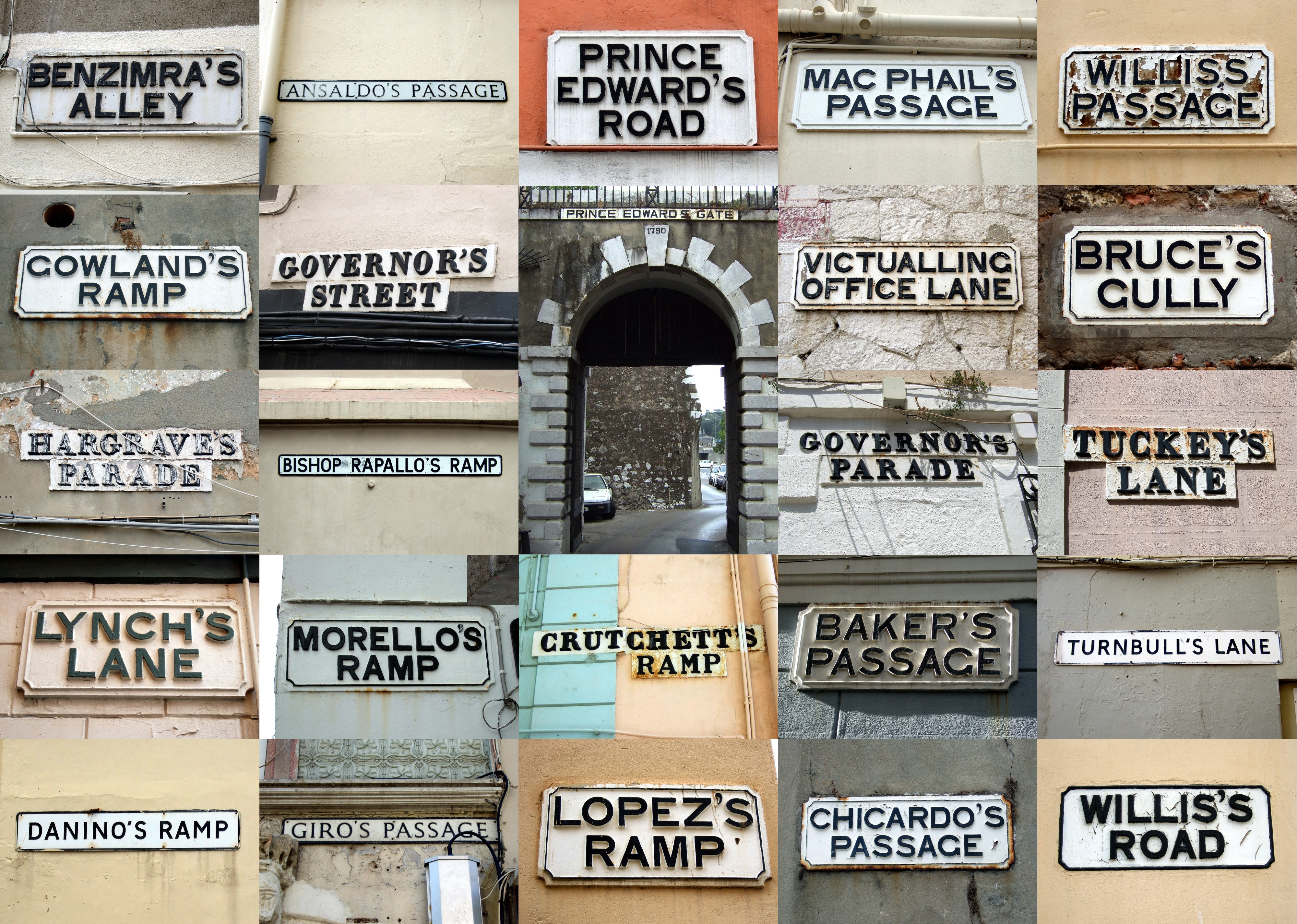 Everyone appears to own a bit of this town. (I'm quite happy with this as a first attempt, but I might play with this and see if I can change it around a little. Just noticed that 'Victualling Office Lane' has made it in here, which isn't someone's name, so I'll need to properly redo this anyway.)